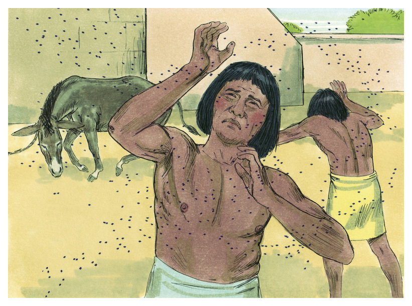 Biblical illustration of Book of Exodus Chapter 9